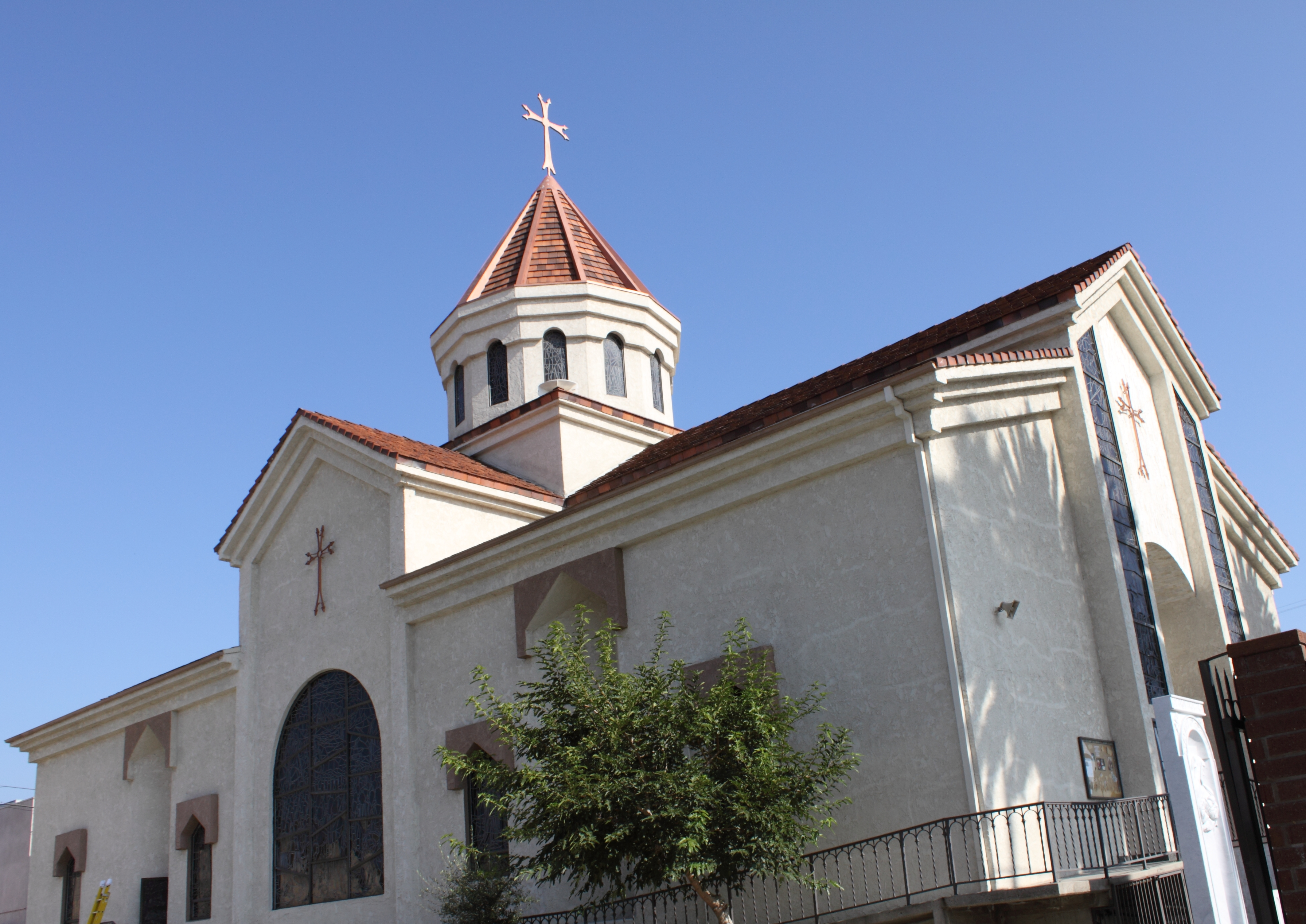 The Surp Garabed Armenian Church (Saint Garabed) on North Alexandria Avenue in the Little Armenia community of the Hollywood district of Los Angeles. The church was consecrated in 1977.